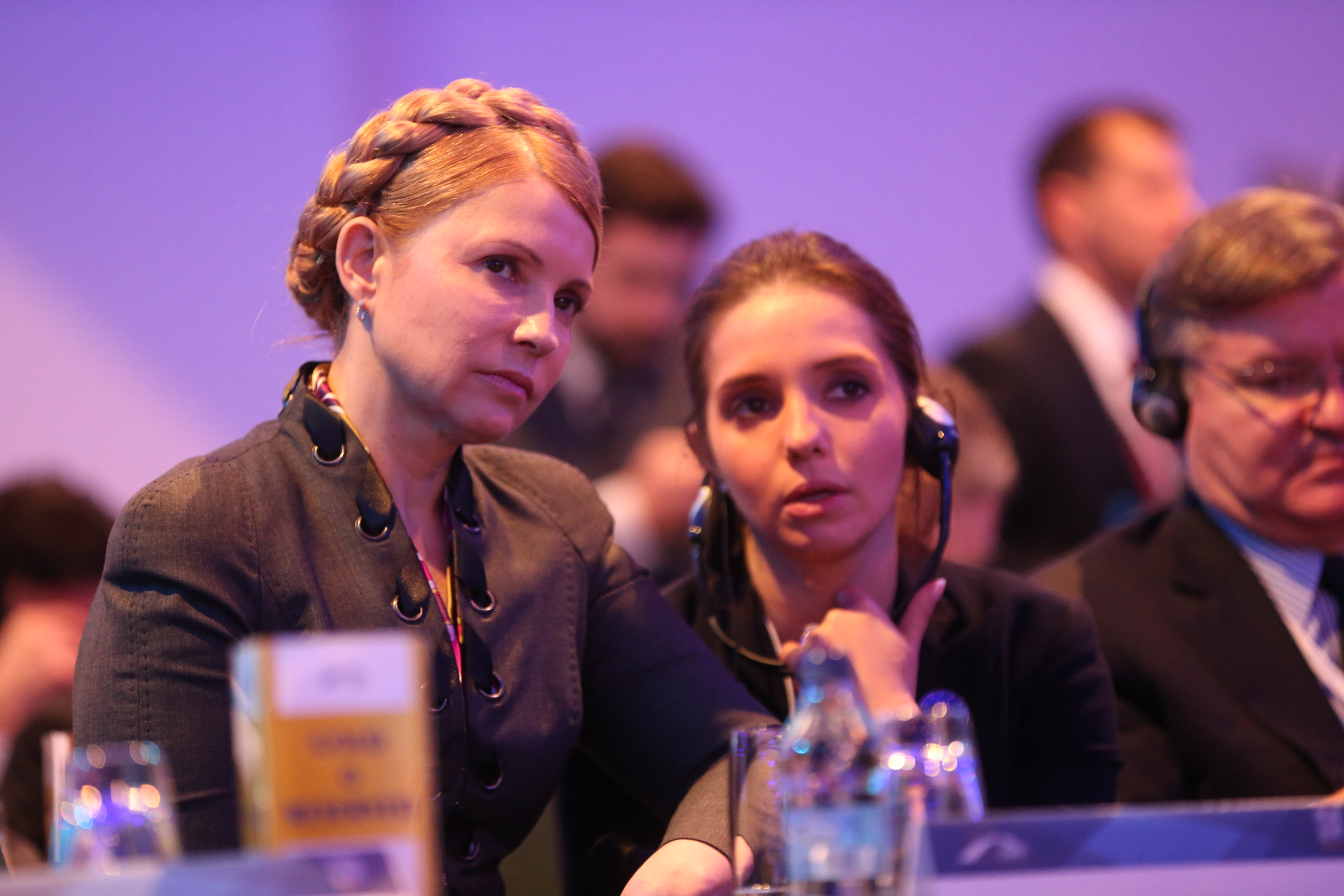 Yulia Tymoshenko with her daughter Yevhenia (Eugenia) at the 2014 European People's Party Congress in Dublin, Ireland.